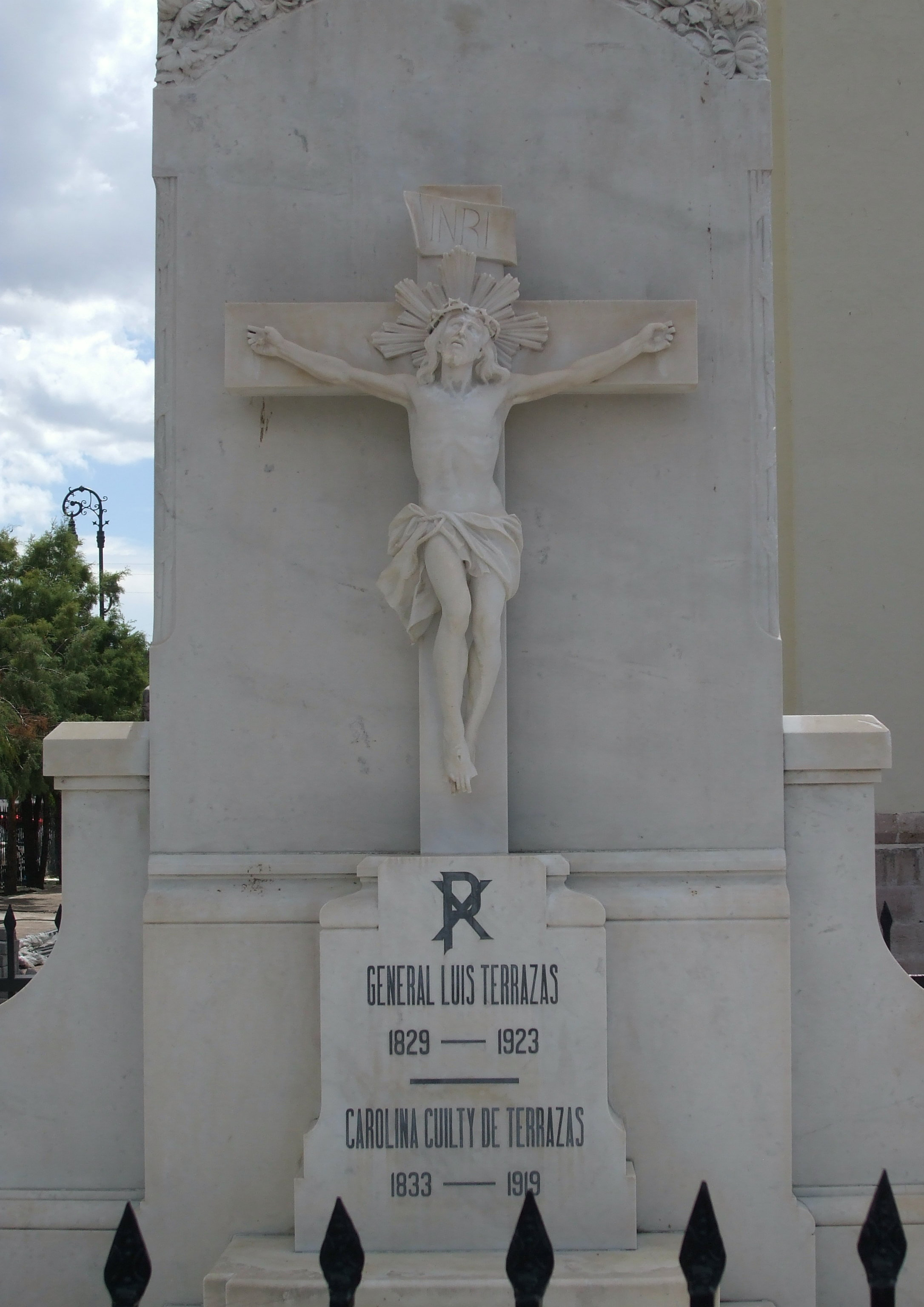 Tomb of Luis Terrazas, Chihuahua, Mexico